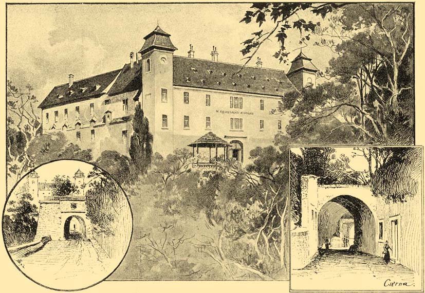 Habsburg-Lothringen Castle in Magyaróvár (Mosonmagyaróvár)